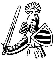 Odo IV of Burgundy